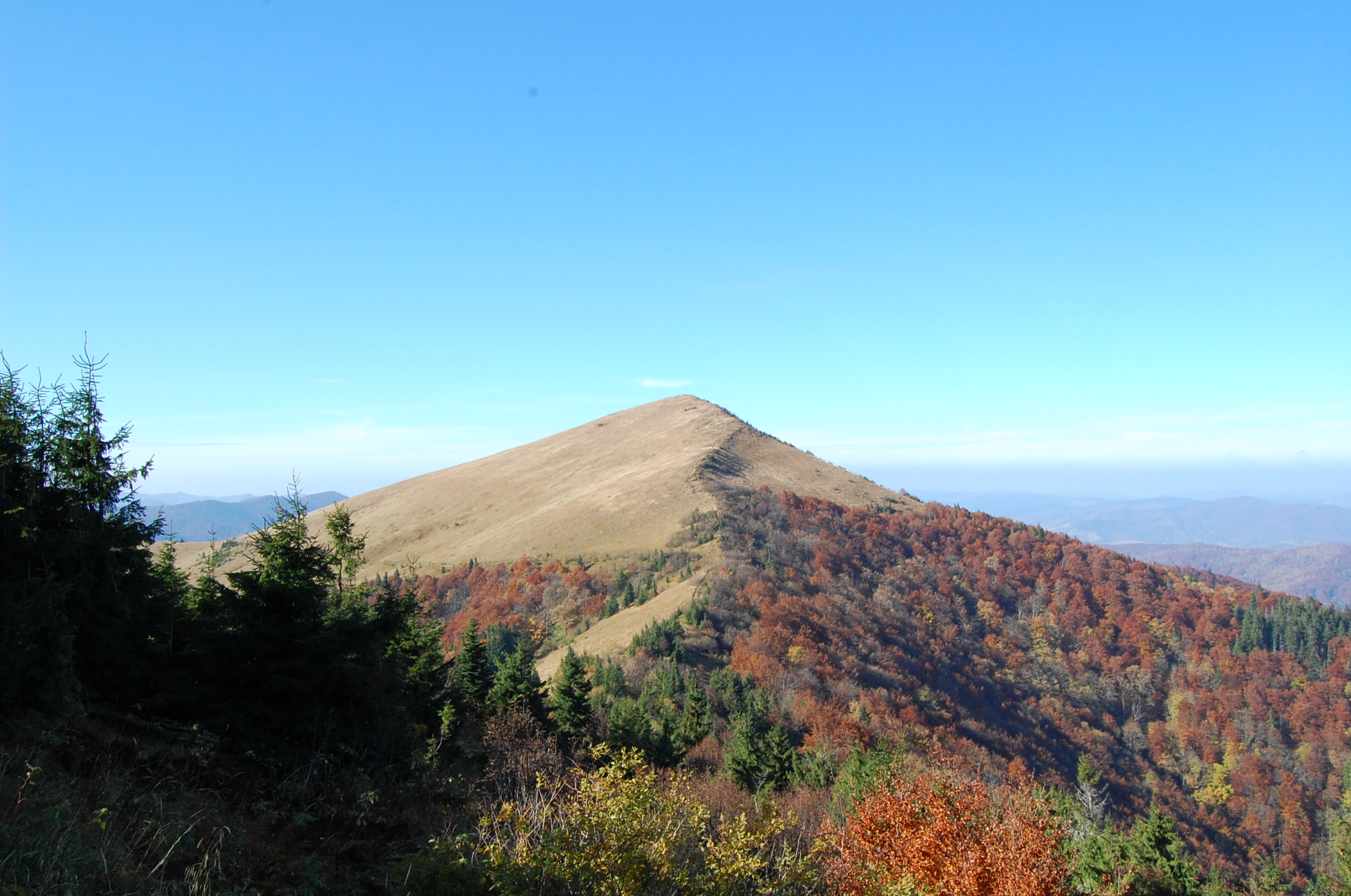 Carpathian Mountains in western Ukraine.